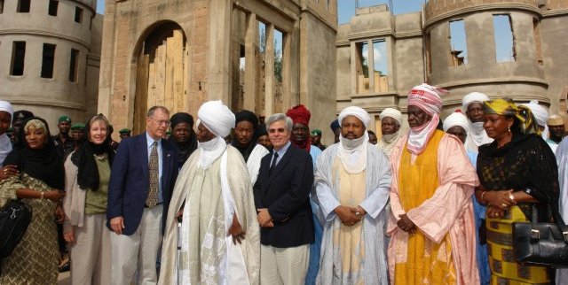 Emir of Gombe - His Royal Highness, Alhaji Shehu Usman Abubakar (Center left) receives U.S. Embassy Charge’ d’Affaires Robert E. Gribbin (center right) outside the emirs palace, Gombe, Gombe State, Nigeria